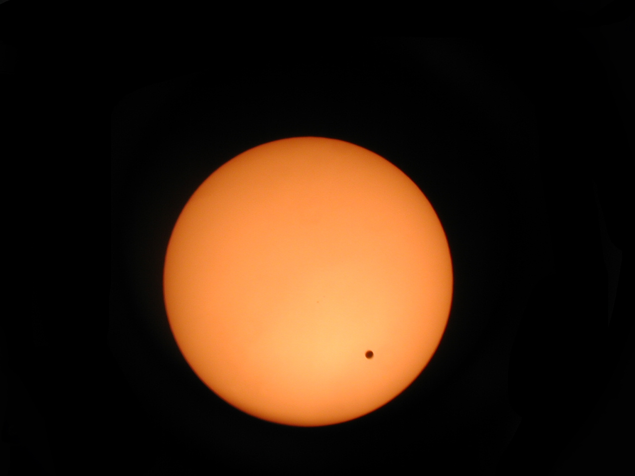 2004.06.08 Venus Transit, Celestron 8" Catadioptric Telescope